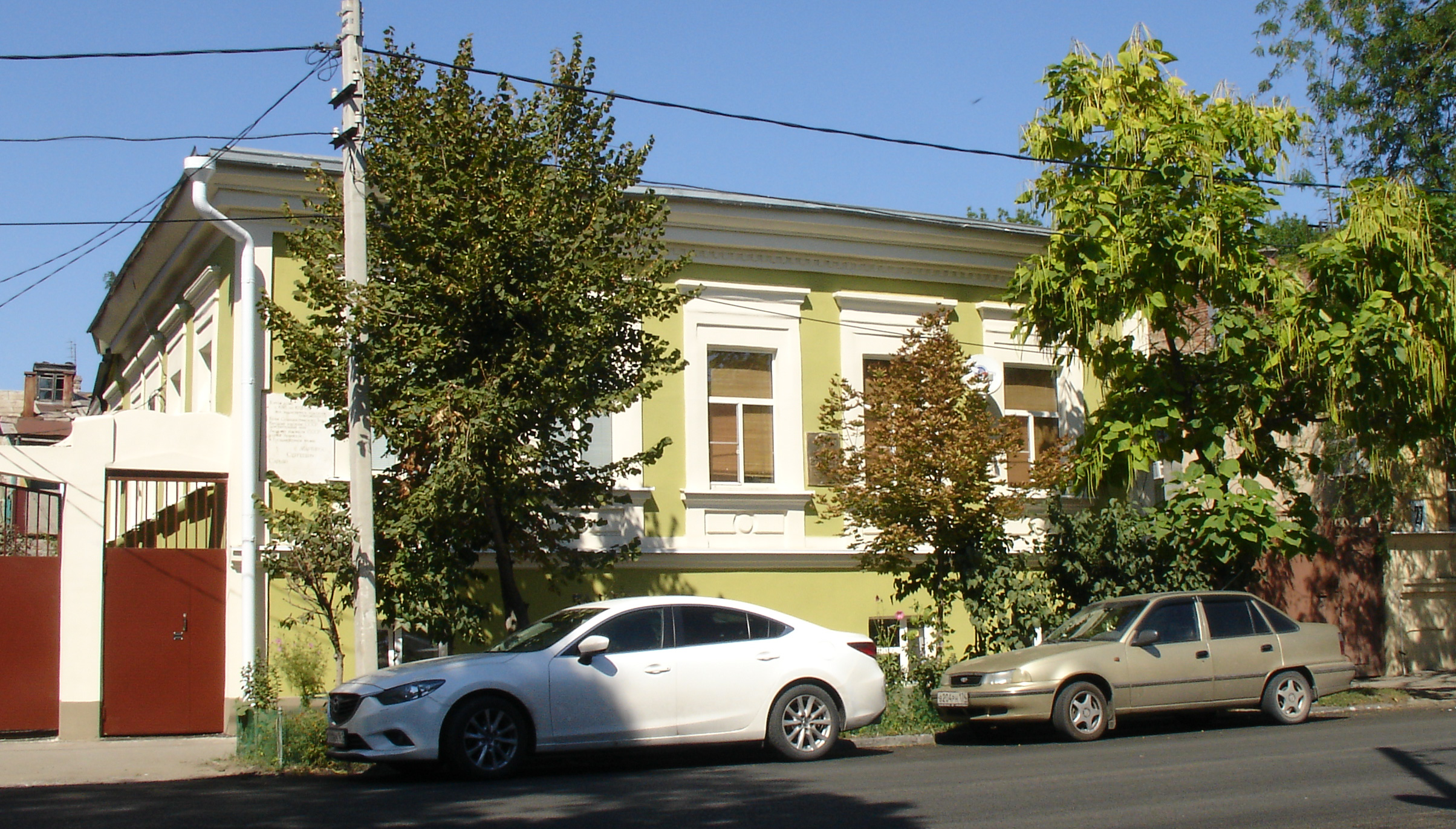 A house where Martiros Saryan lived and worked from 1916 to 1921. 1-Mayskaya str., 29 (A, A1), Rostov-on-Don, Russia.